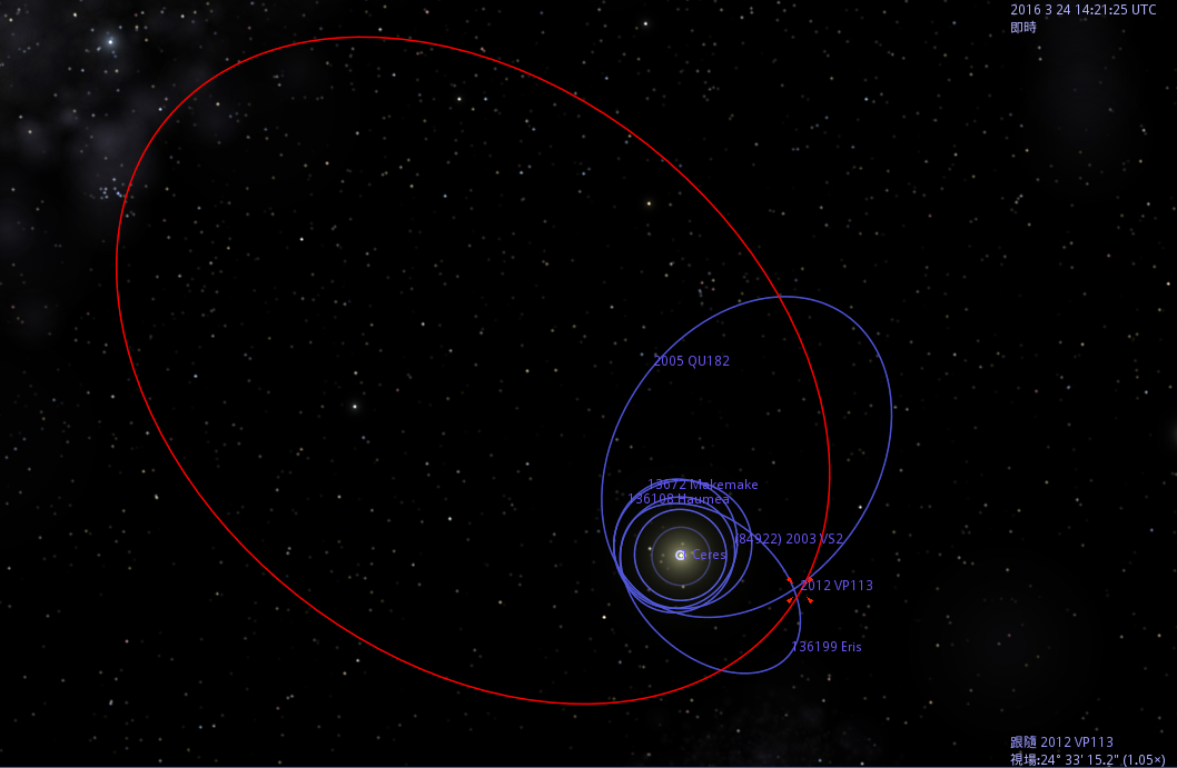 Screenshot of sednoid 2012 VP113 orbit in the Solar System simulated. Data Source: JPL/NASA